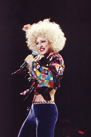 Photo taken during one of the concerts in 1993